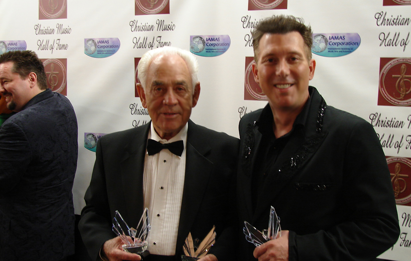 Les Beasley and Ernie Hasse